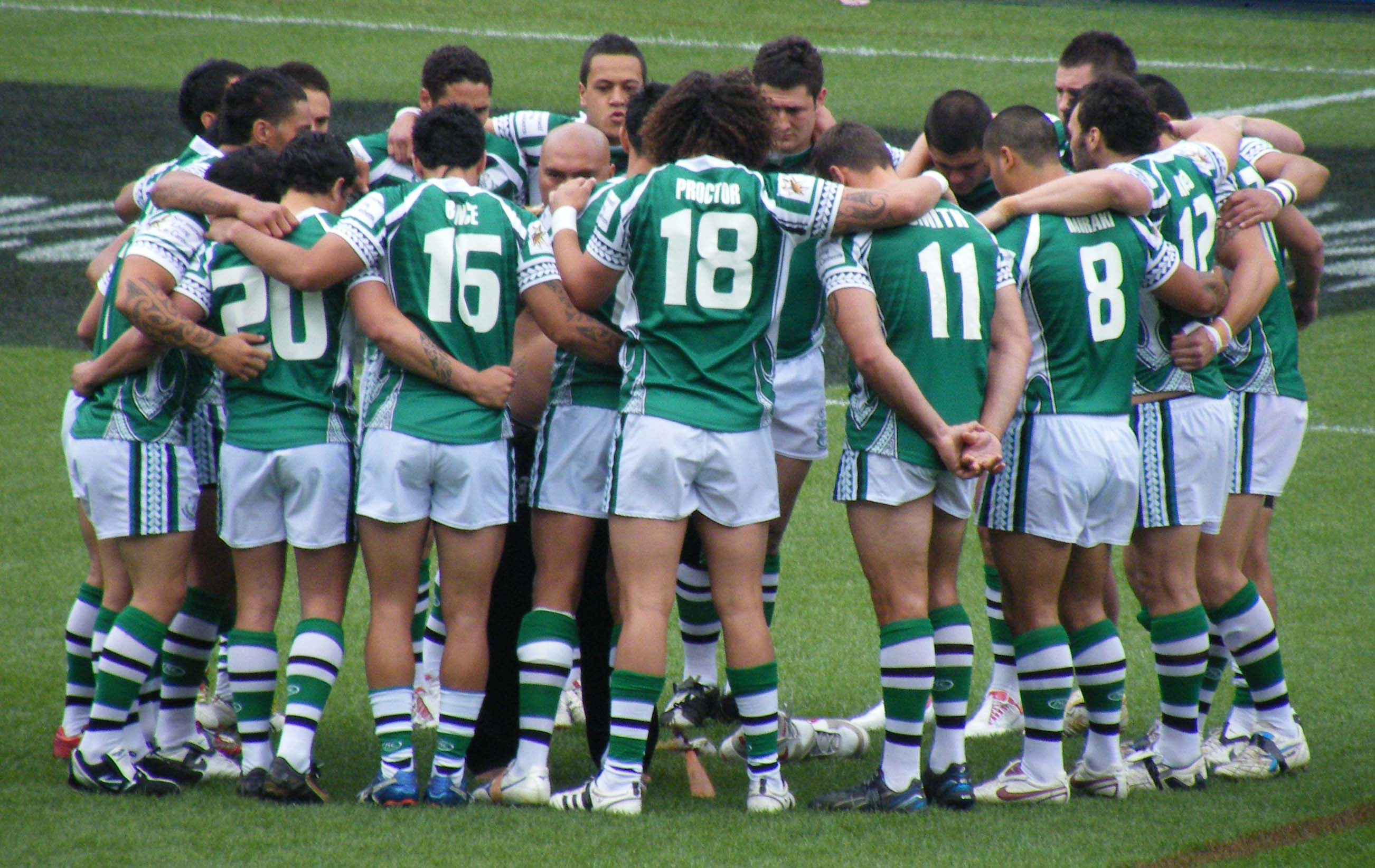 RLWC 2008 Aboriginal dreamtime team versus New Zealand Maori.